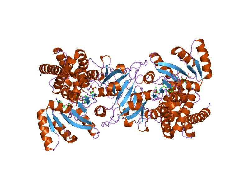 Cartoon representation of the molecular structure of protein registered with 1q0q code.